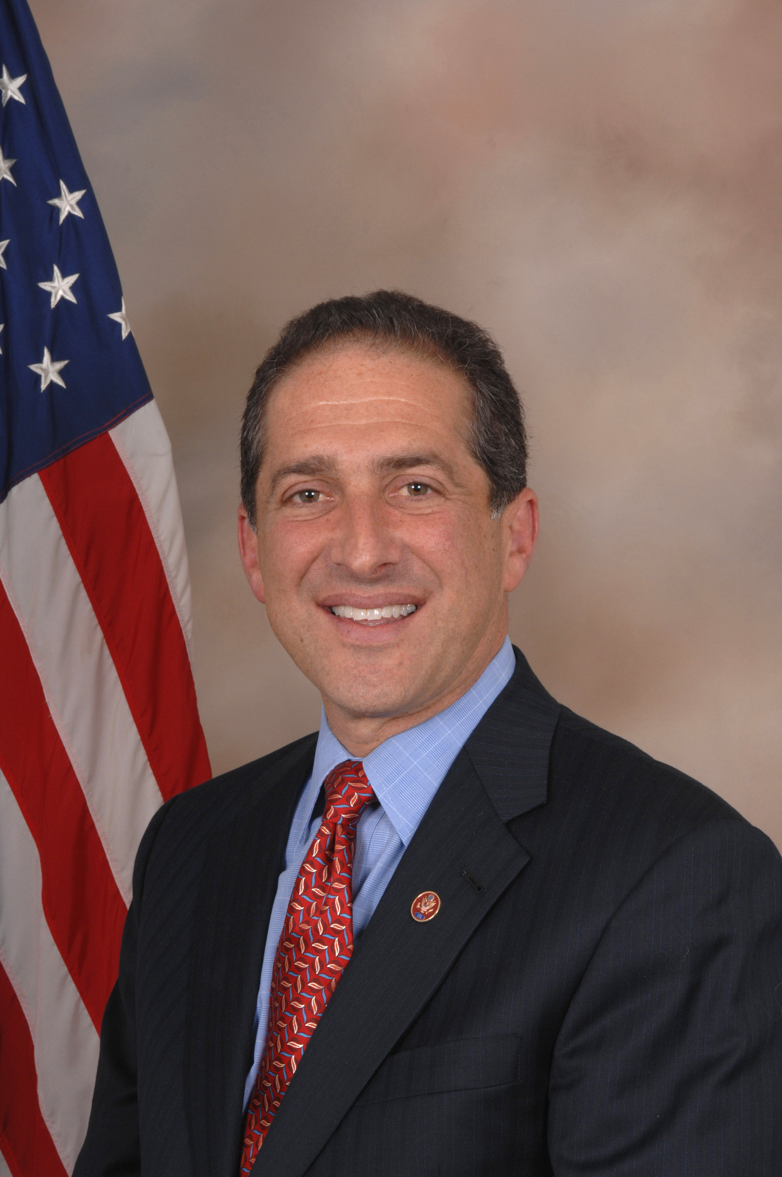 Ron Klein, member of the United States House of Representatives.